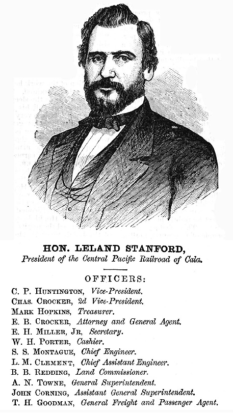 Engraving of Leland Stanford and the officers of the Central Pacific Railroad.